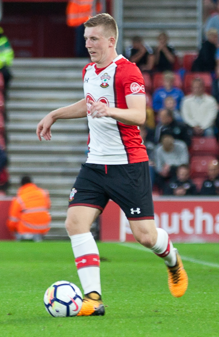 Pre-season friendly Wednesday 2 August 2017 Image by Steve Hogg